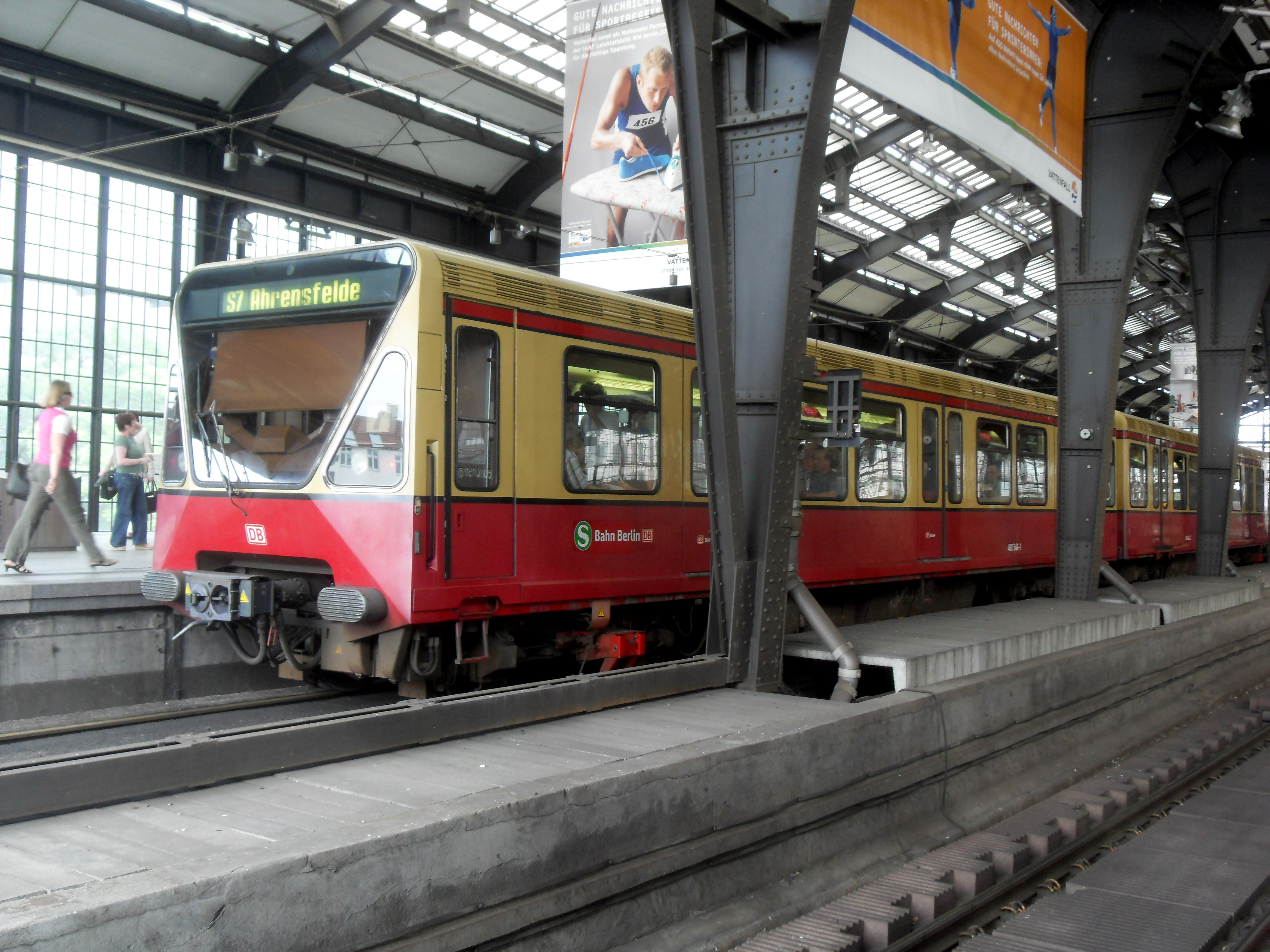 Berlin S-Bahn train type 480 at Friedrichstraße train station